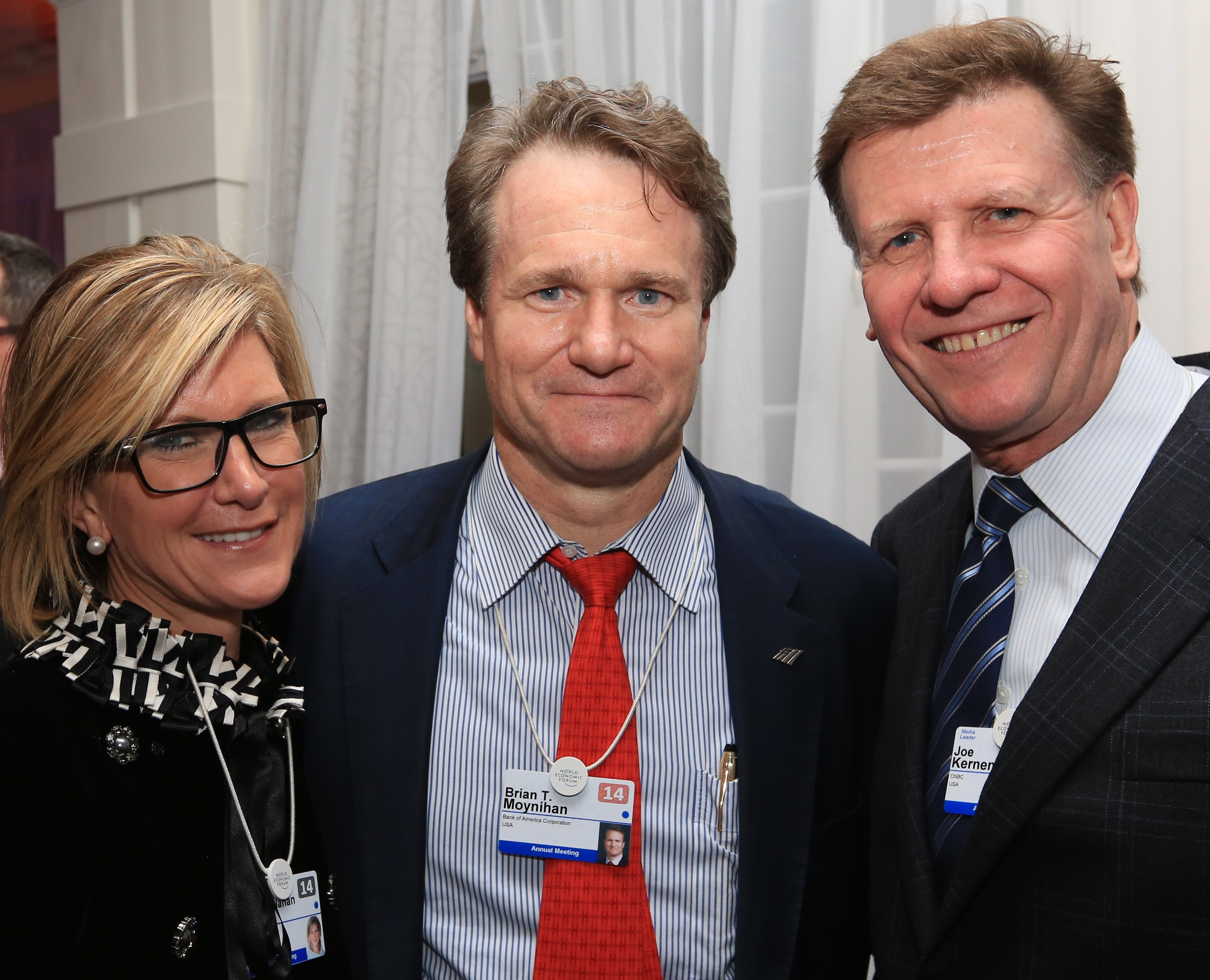 FT CNBC Nightcap 2014, Davos, World Economic Forum.